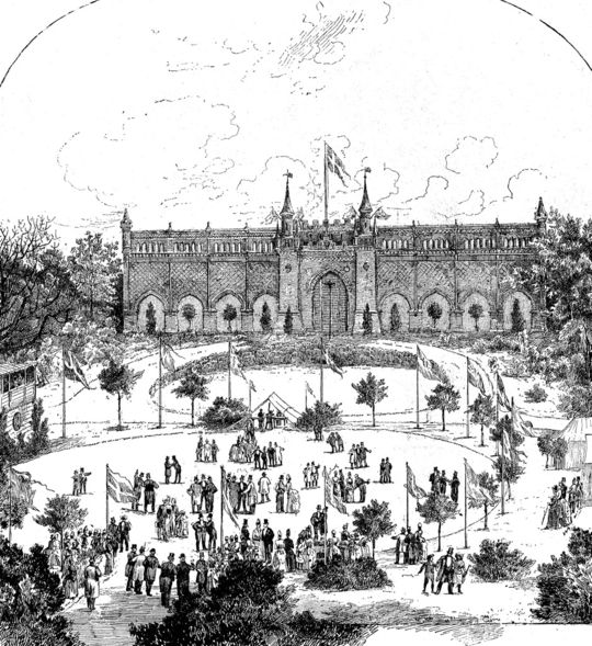 Old drawing of the Royal Copenhagen Shooting Range in the 1890s, now the Skydebanehaven park behind the Museum of Copenhagen in the Vesterbro district of Copenhagen, Denmark